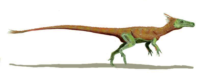 Juravenator starki, a small theropod dinosaur from the Late Jurassic of Germany, pencil drawing